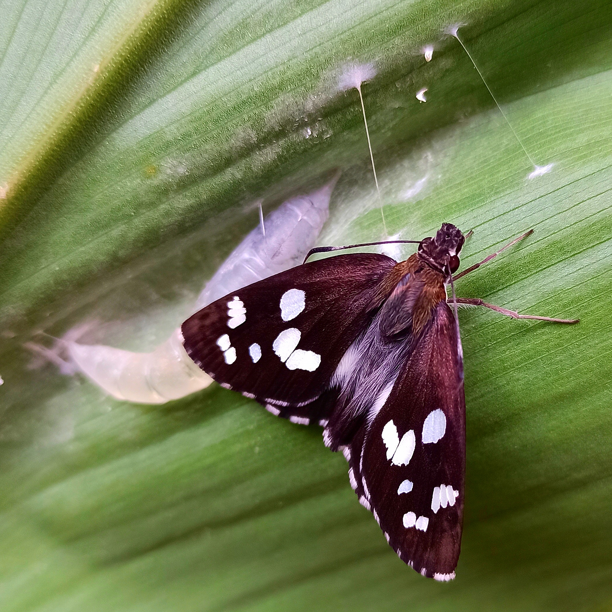 Grass Demon Butterfly (Udaspes Folus) just after emerging out of its larva